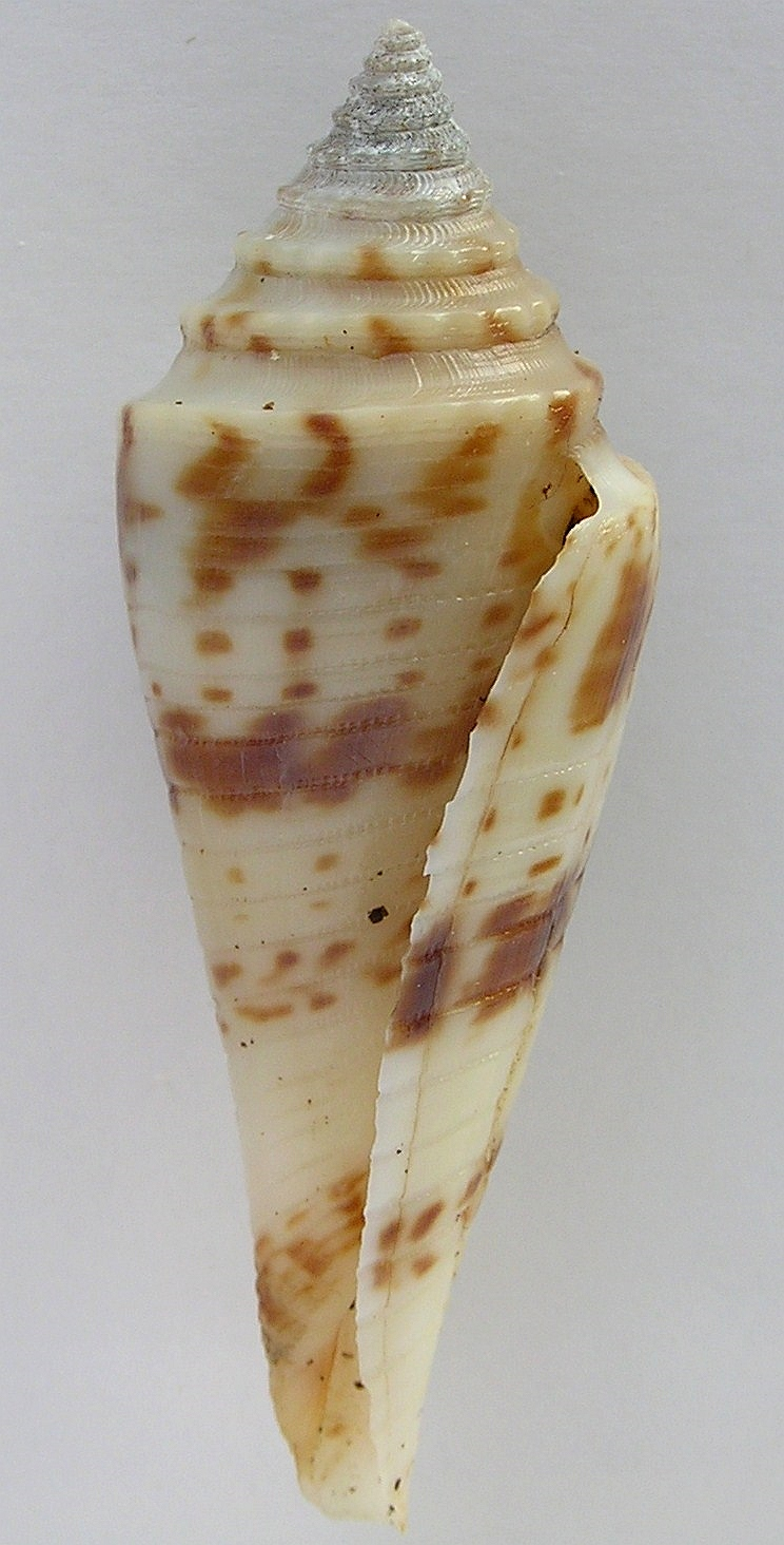 Conasprella ichinoseana (Kuroda, 1956) ; family Conidae; Taiwan